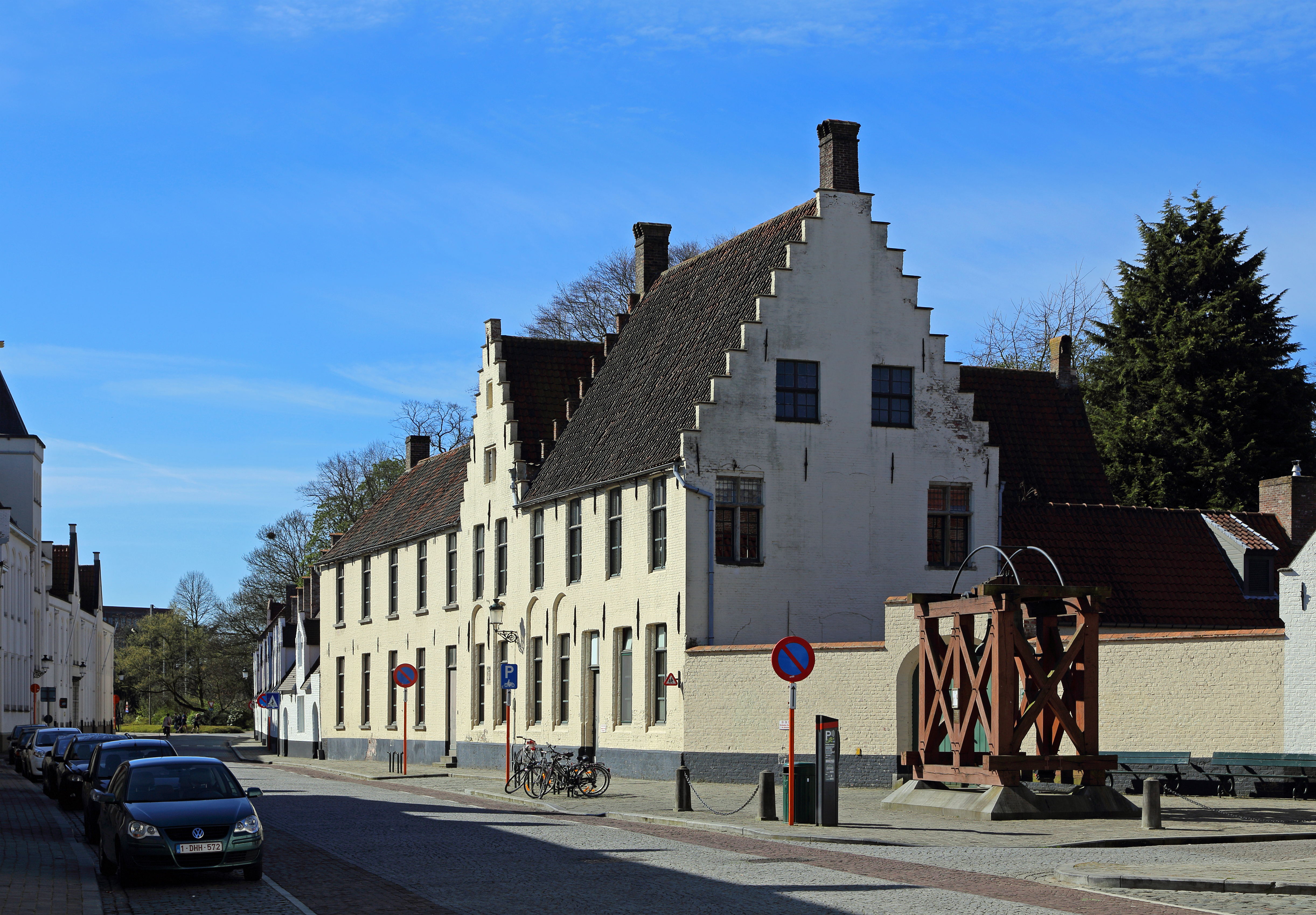 Bruges (Belgium), Boeveriestraat 50: House Van Volden